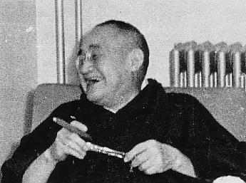 Laughing Shigeru Yoshida